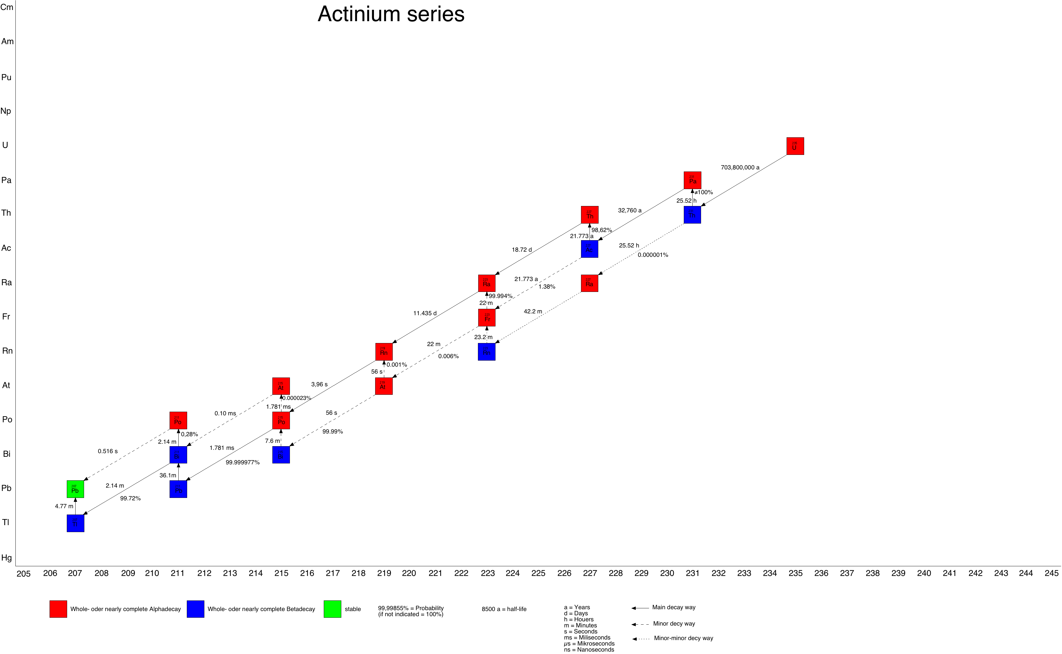 The Actinium series.